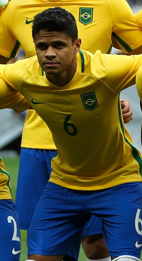 Brasília - Futebol masculino da seleção brasileira, deu o seu pontapé inicial na Olimpíada Rio 2016, em uma partida contra a África do Sul, no Estádio Mané Garrincha (Marcelo Camargo/Agência Brasil)